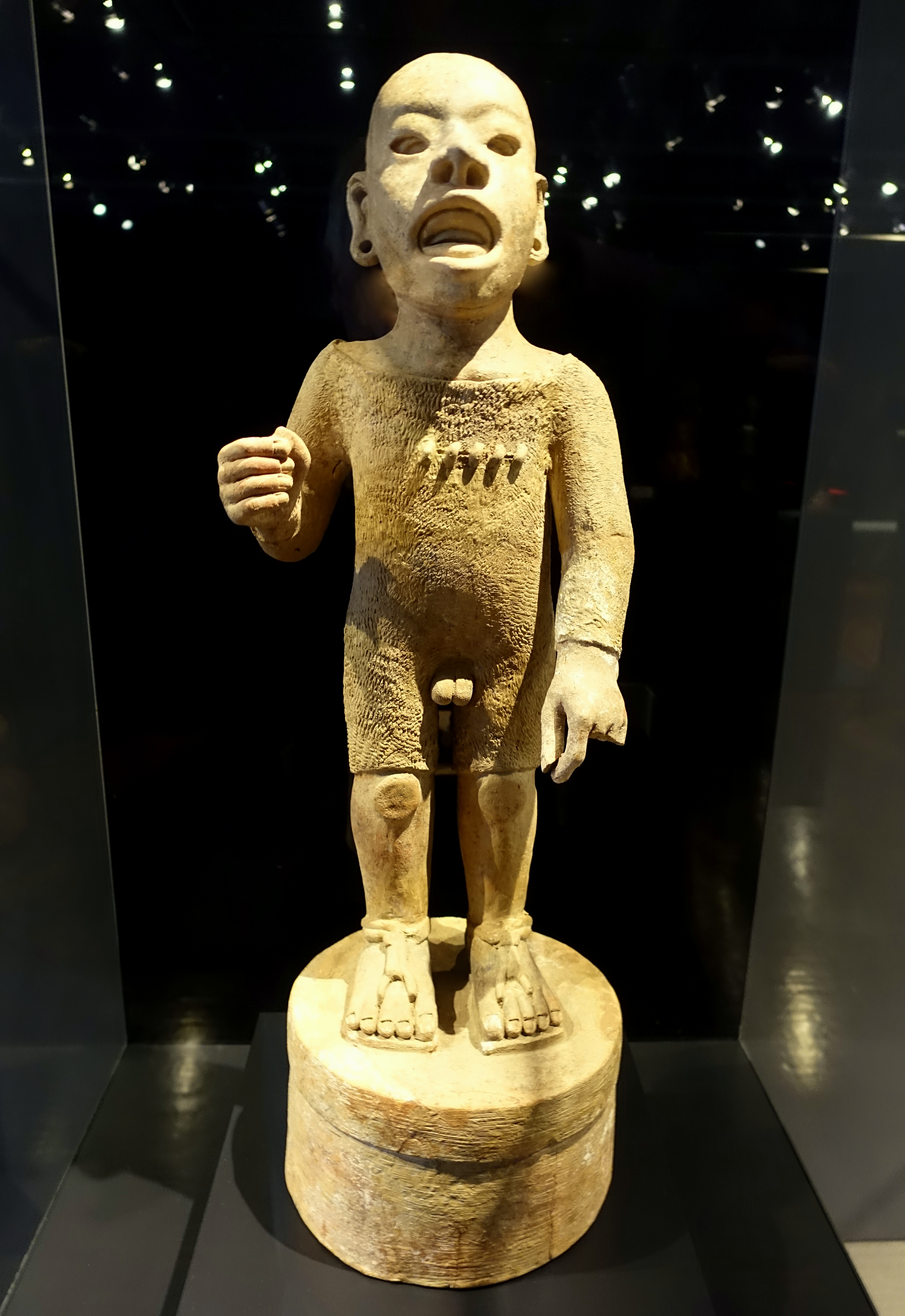 Exhibit in the Rautenstrauch-Joest-Museum - Cologne, Germany.